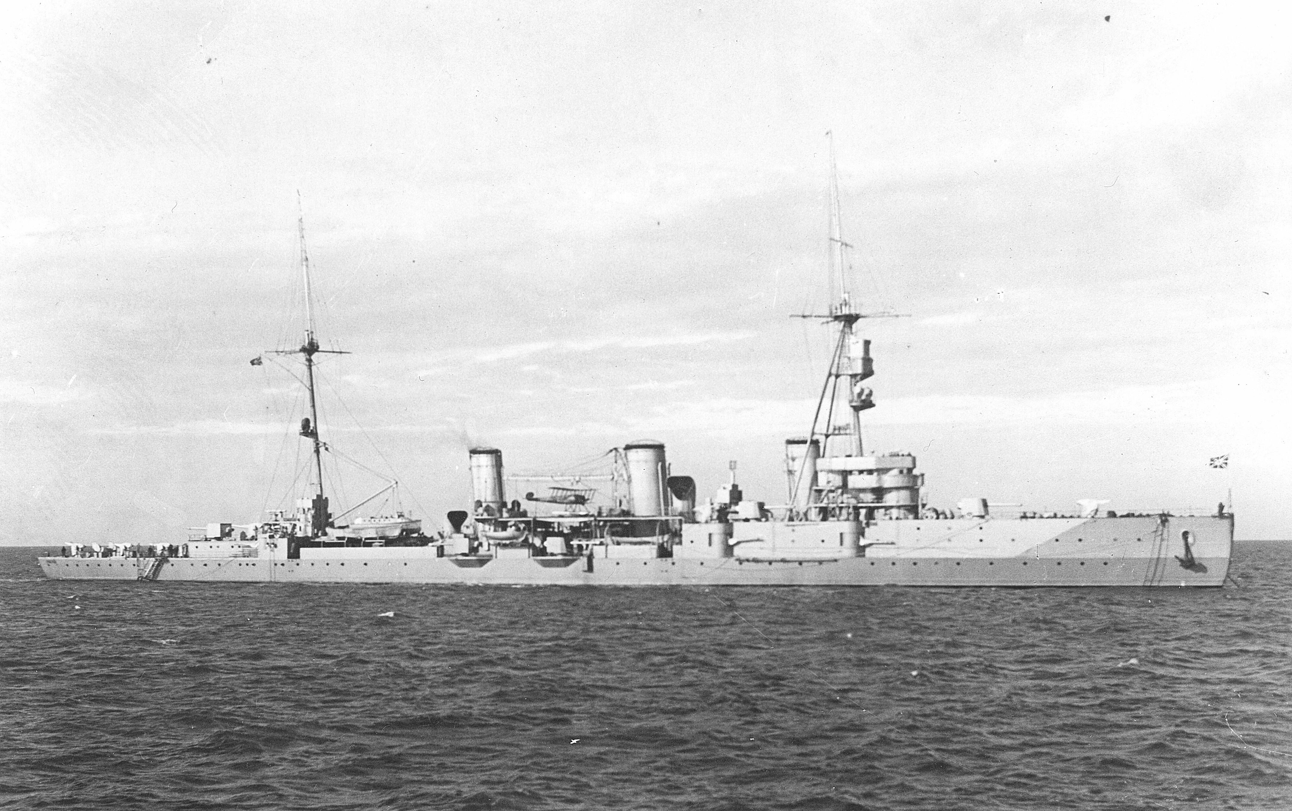 Soviet cruiser Chervona Ukraina, 1927-1930 (MU-1 (Avro 504) floatplane with initial form of crane, 75 mm Meller AA guns).